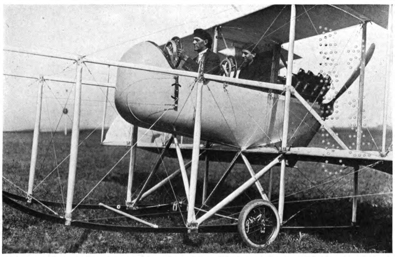 Boland 1912 Tailless Biplane Nacelle